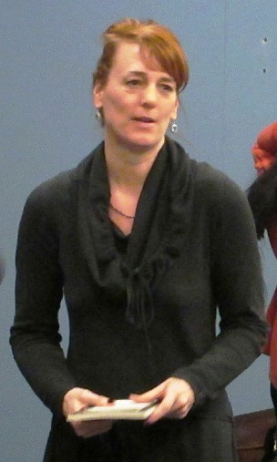 Katie Salen at Quest to Learn, a public school which she was instrumental in creating; Manhattan, New York City, February 12, 2013.